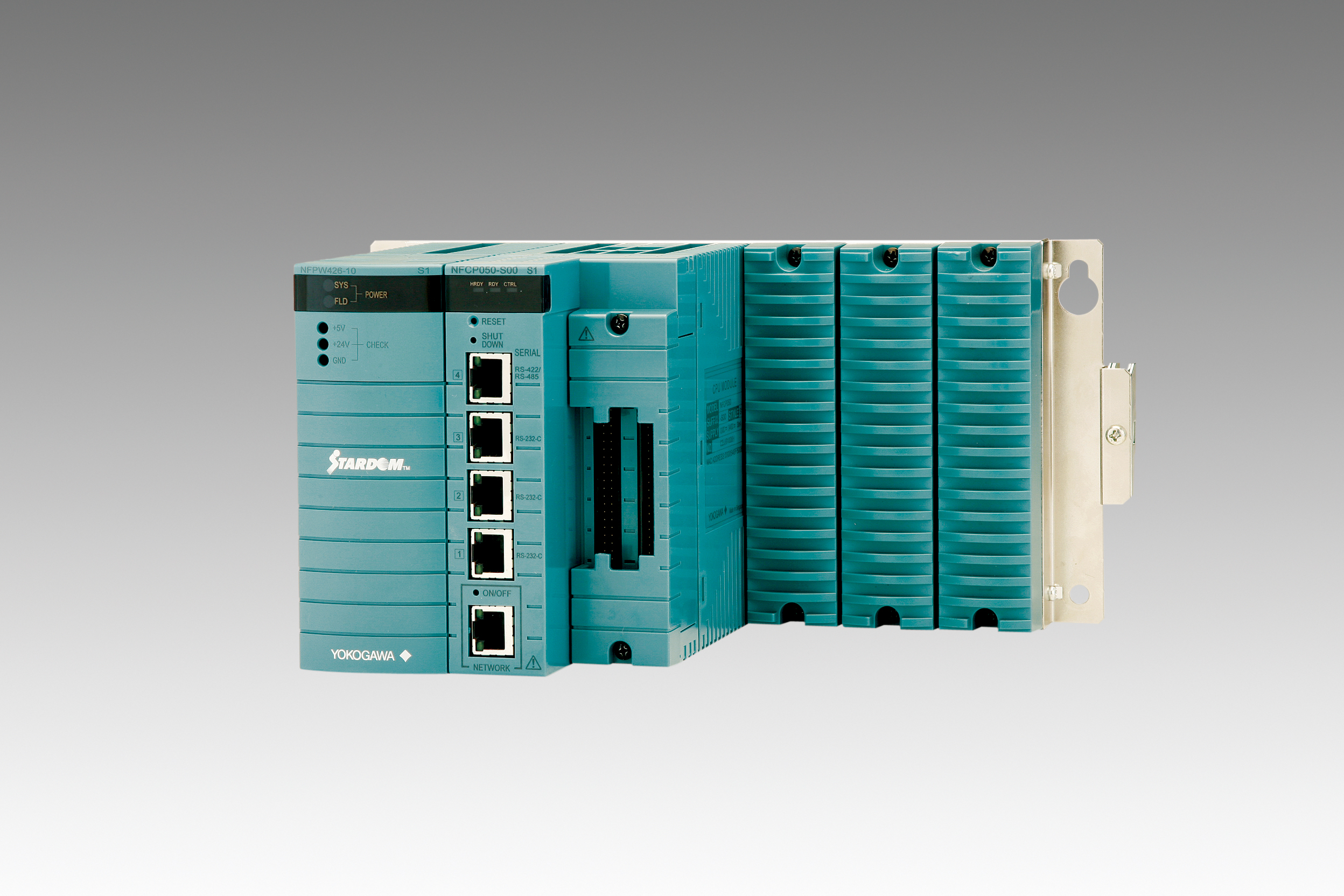 FCN-RTU: Low-power hybrid PLC/intelligent RTU